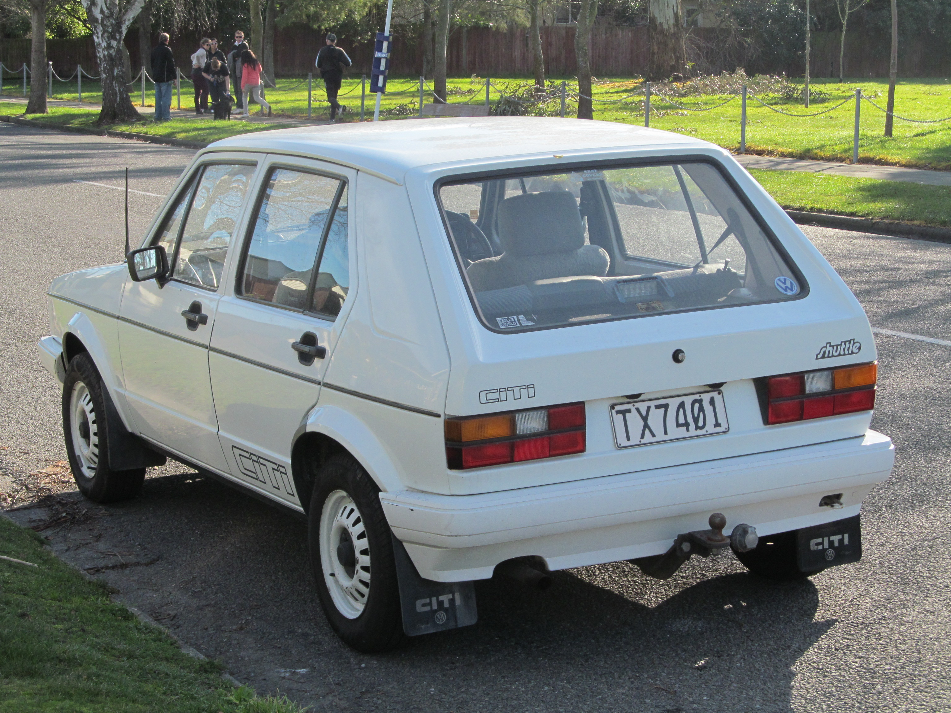 TX7401 In response to the questions, this is indeed an import from South Africa, and an unusual one at that. It's sort of like a strange combination of a Mk1 and Mk2 Golf that was still in production more than 30 years after the Mk1 was released.